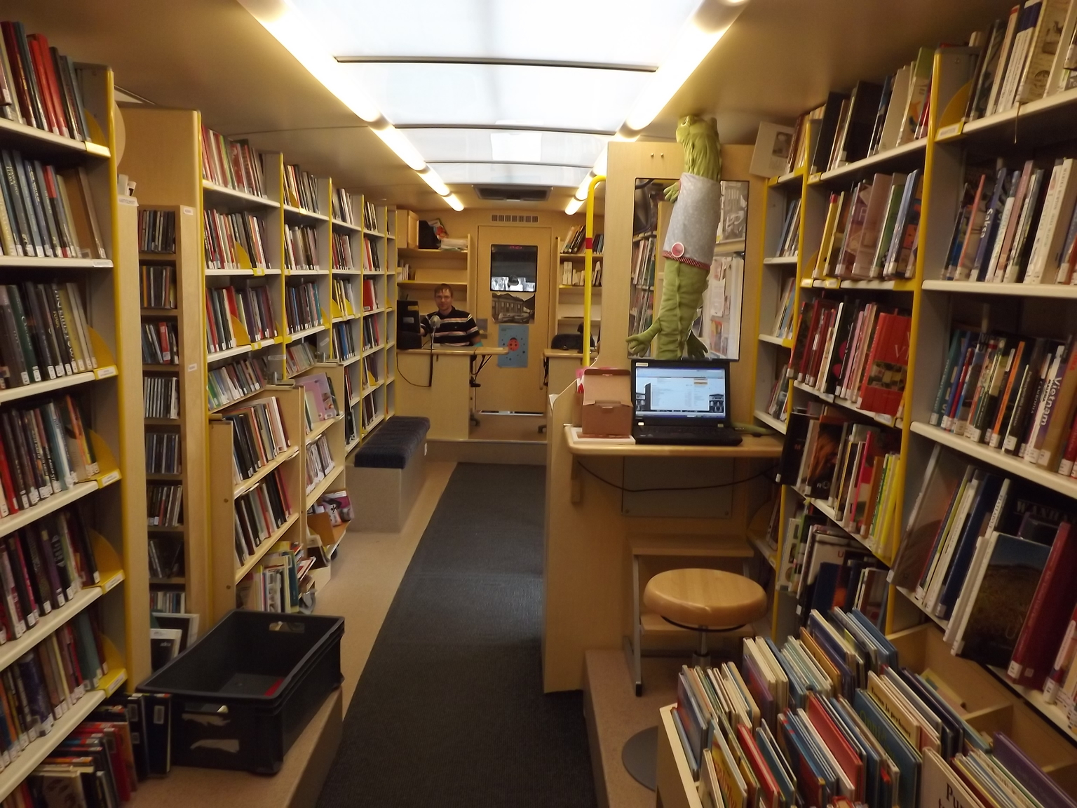 Bookmobile in Turku. Interior, front end.